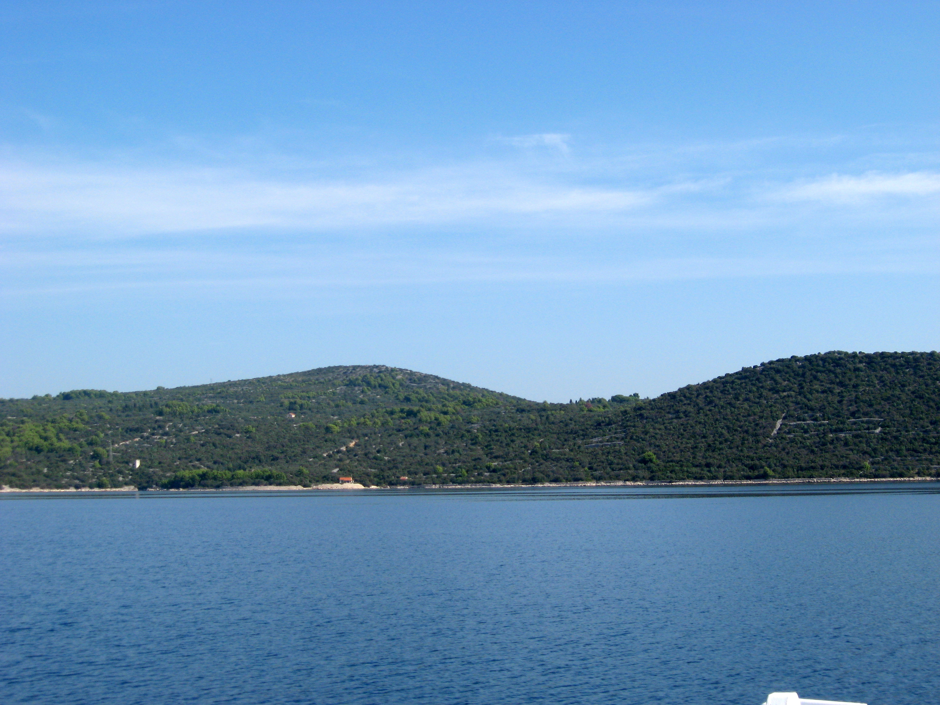 Iz island (Croatia)